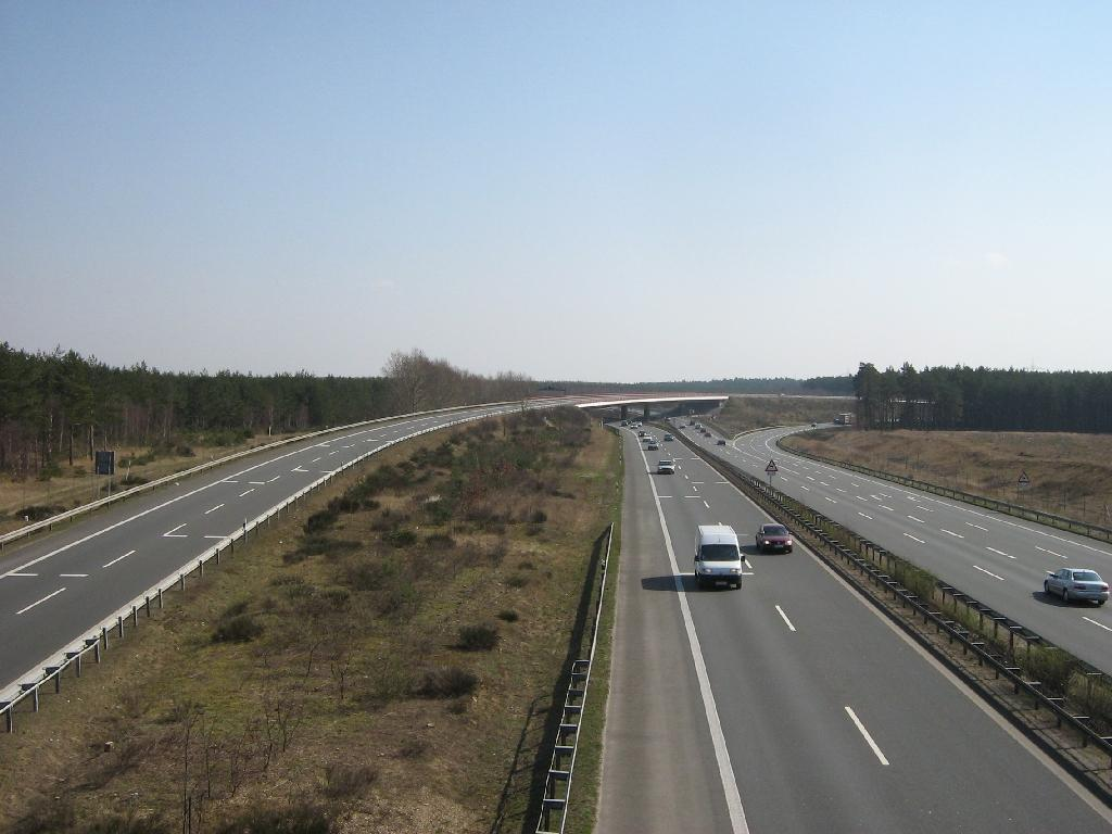 Dreieck Potsdam intersection at the Berlin Ring (A 10); starting point and northern terminus of Autobahn 9 to Munich (under the bridge). Object location 52° 17′ 38.20″ N, 12° 54′ 32.90″ E - OpenStreetMap - Proximityrama (Info)